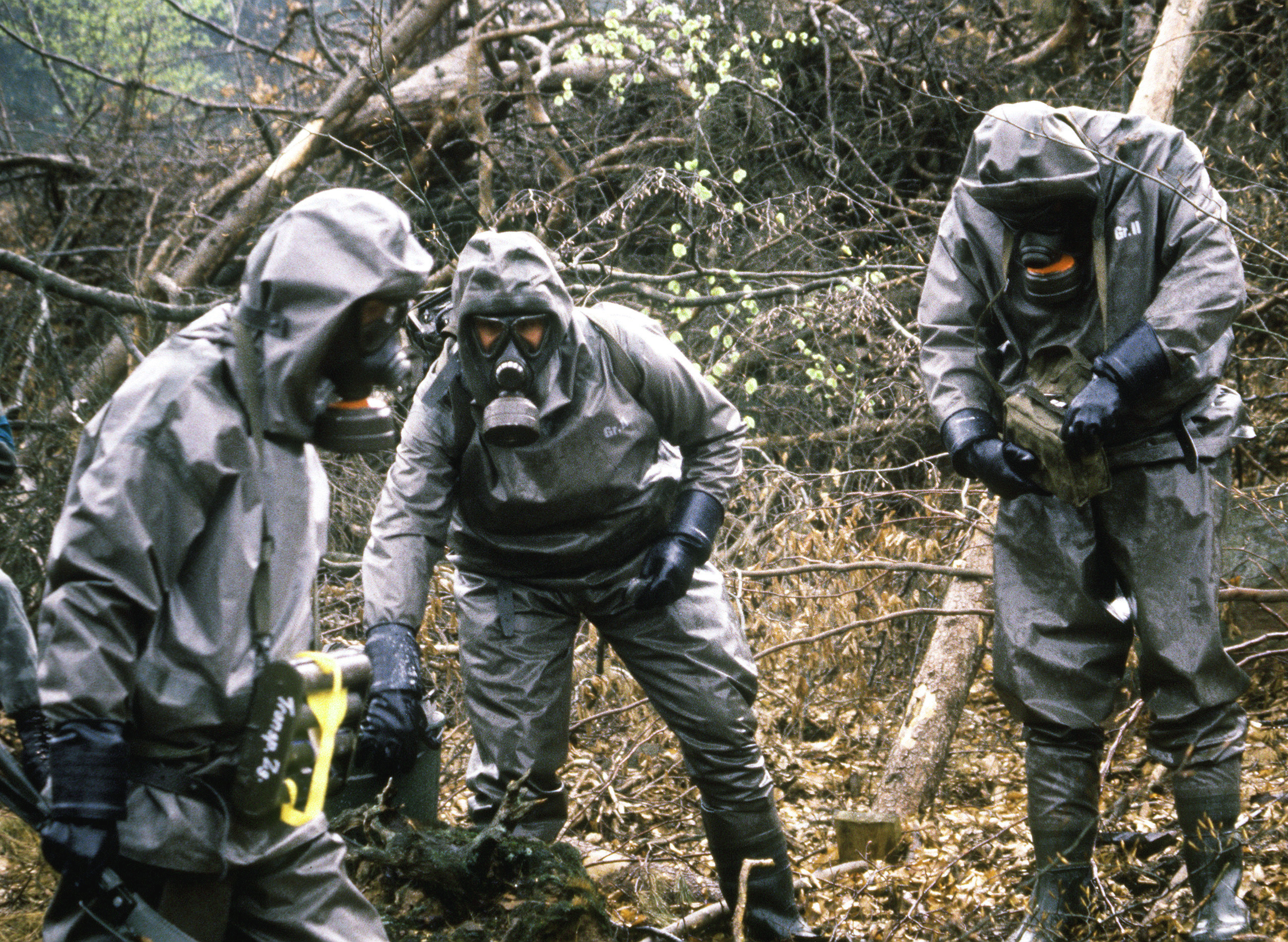 West German soldiers wearing nuclear-biological-chemical (NBC) protective suits and masks prepare to place markers around a contaminated area during Operation CROCODILE, a training exercise for medical, decontamination and chemical reaction team personnel.